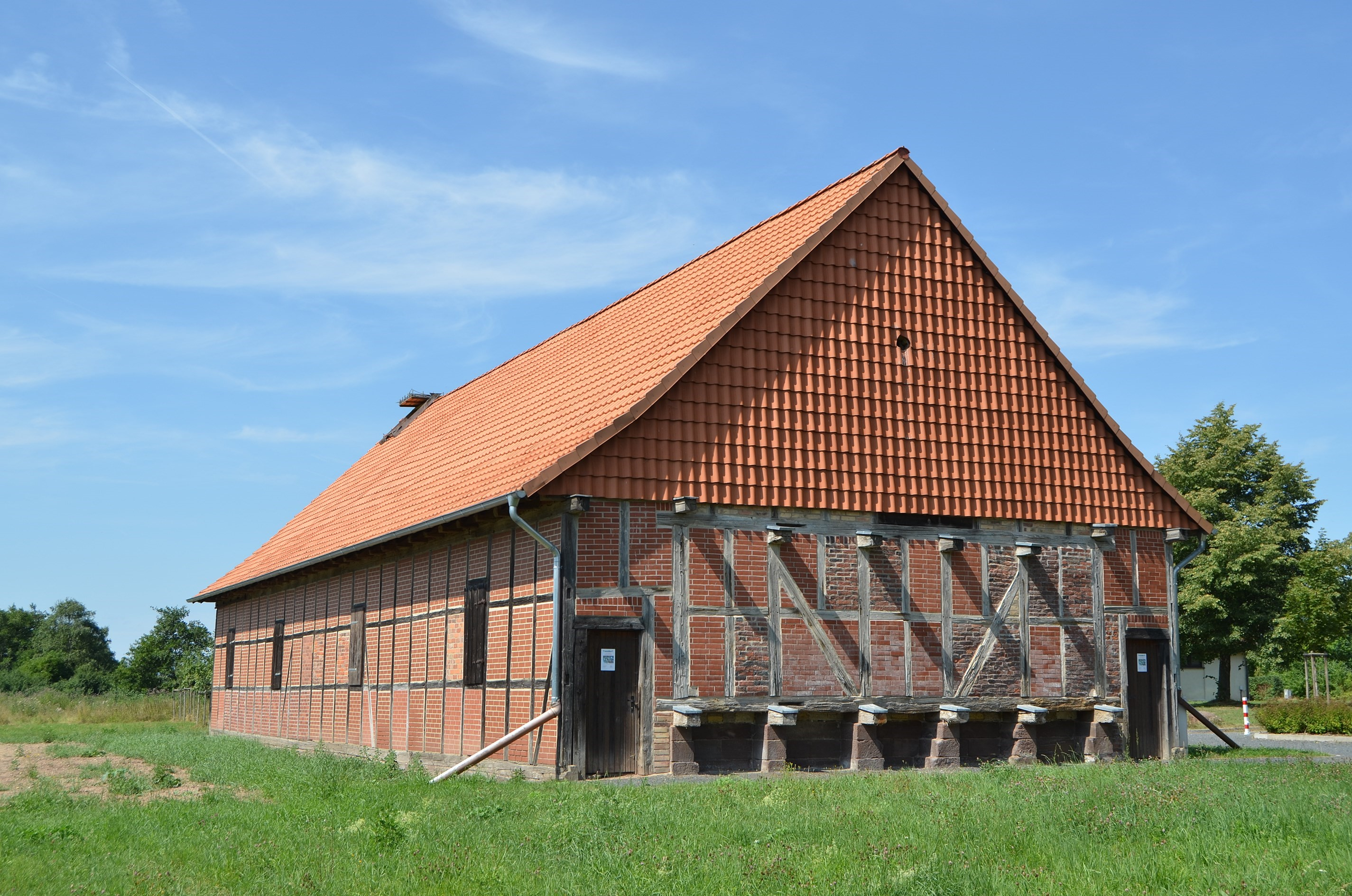 Einbeck (Lower Saxony, Germany) – district Salzderhelden – saline – brine container This is a photograph of an architectural monument.It is on the list of cultural monuments of Einbeck This photograph was taken with a Nikon D7000